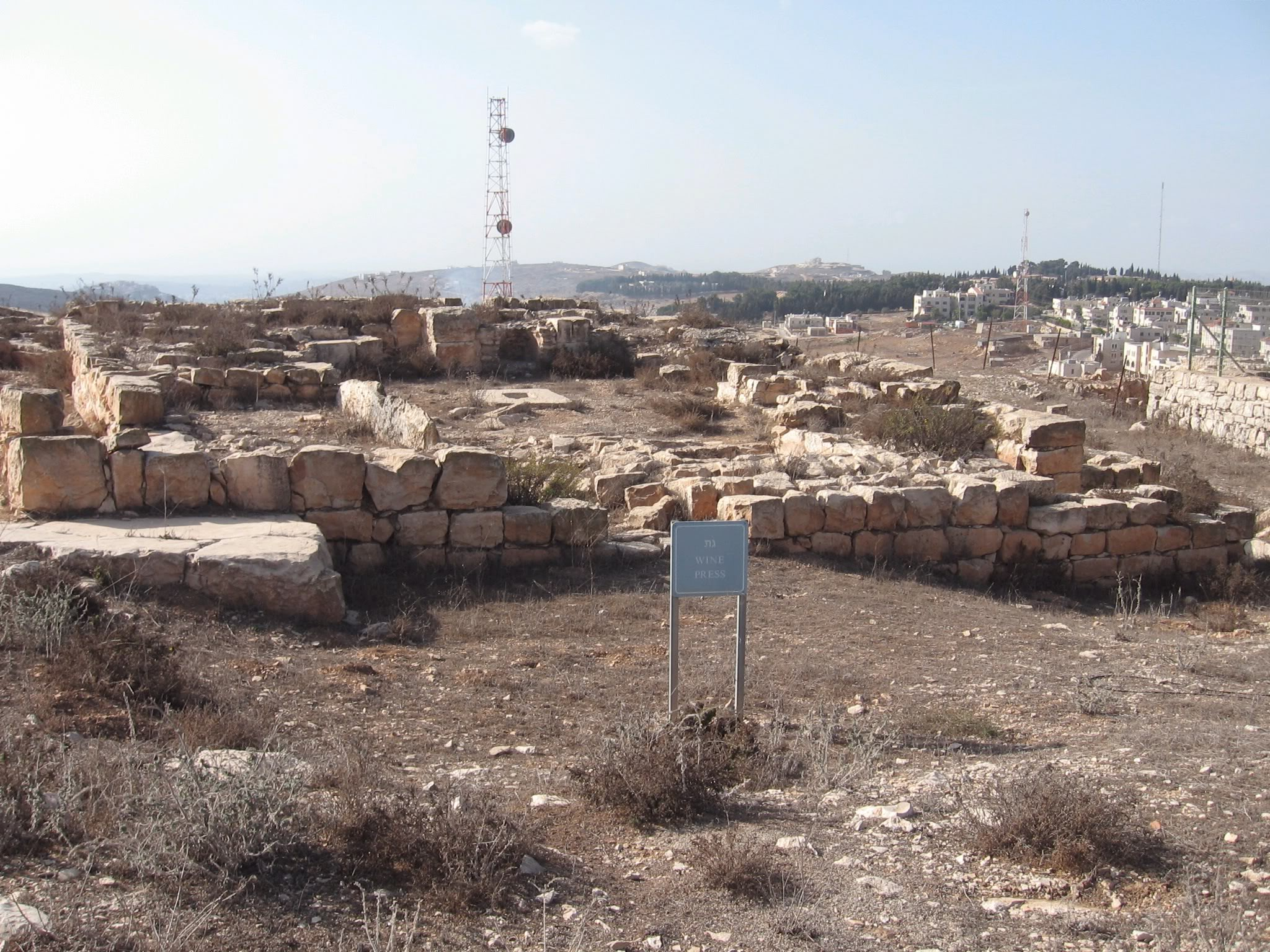 Mount Gerizim the site of the Samarities Mount Gerizim